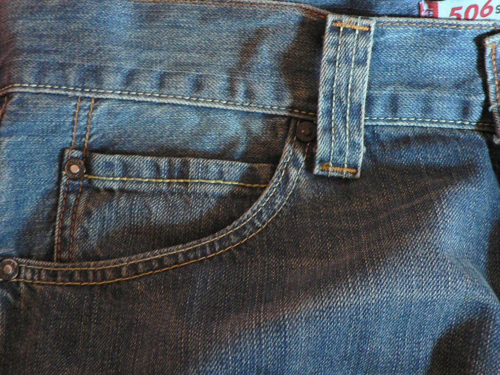 Levi's 506 jeans, front pocket with watch pocket.